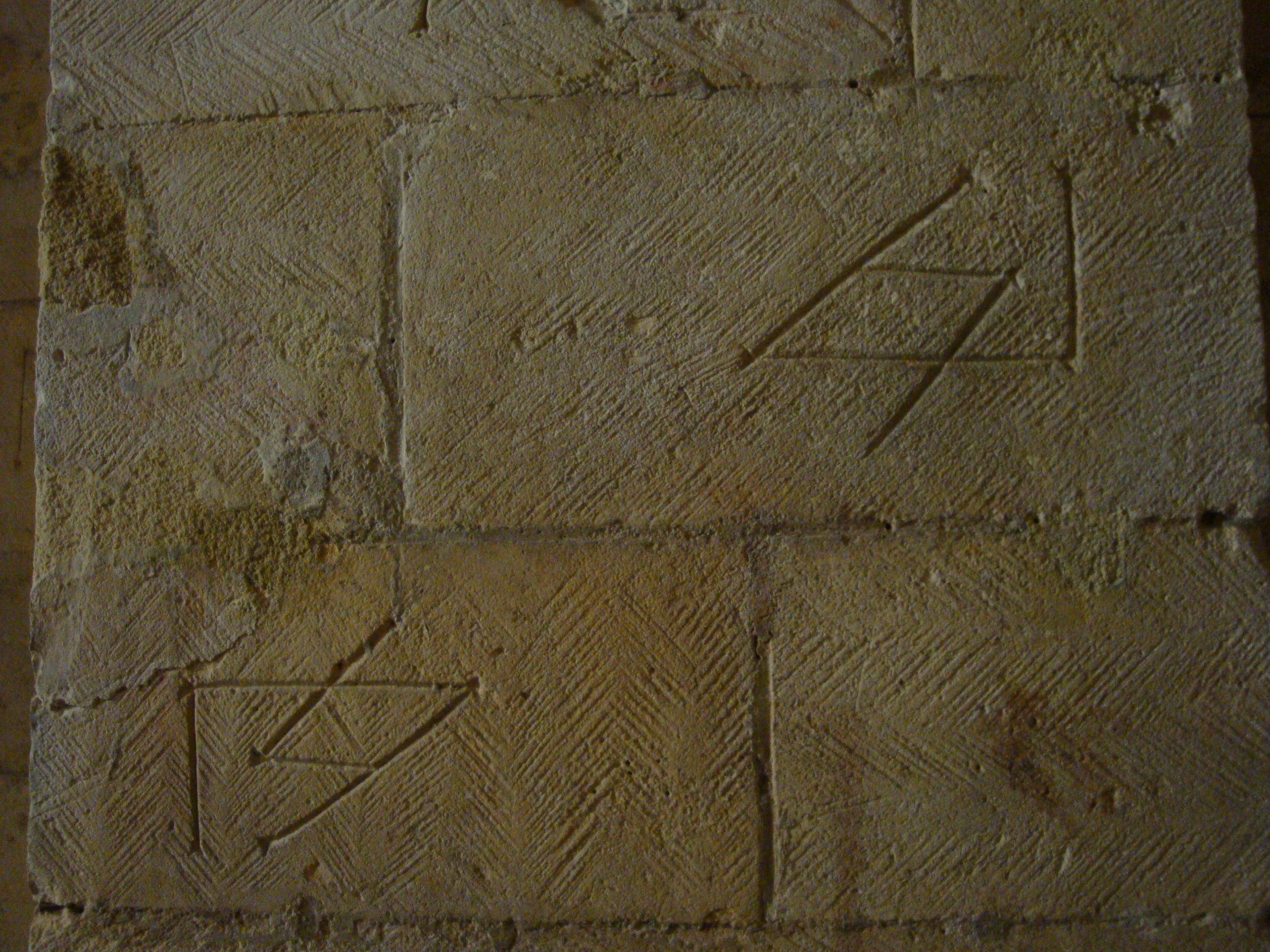 Mason's marks in the Église Saint-Honorat in the necropolis Alyscamps in Arles, France. The marks are found in masonry from the early 13th century.